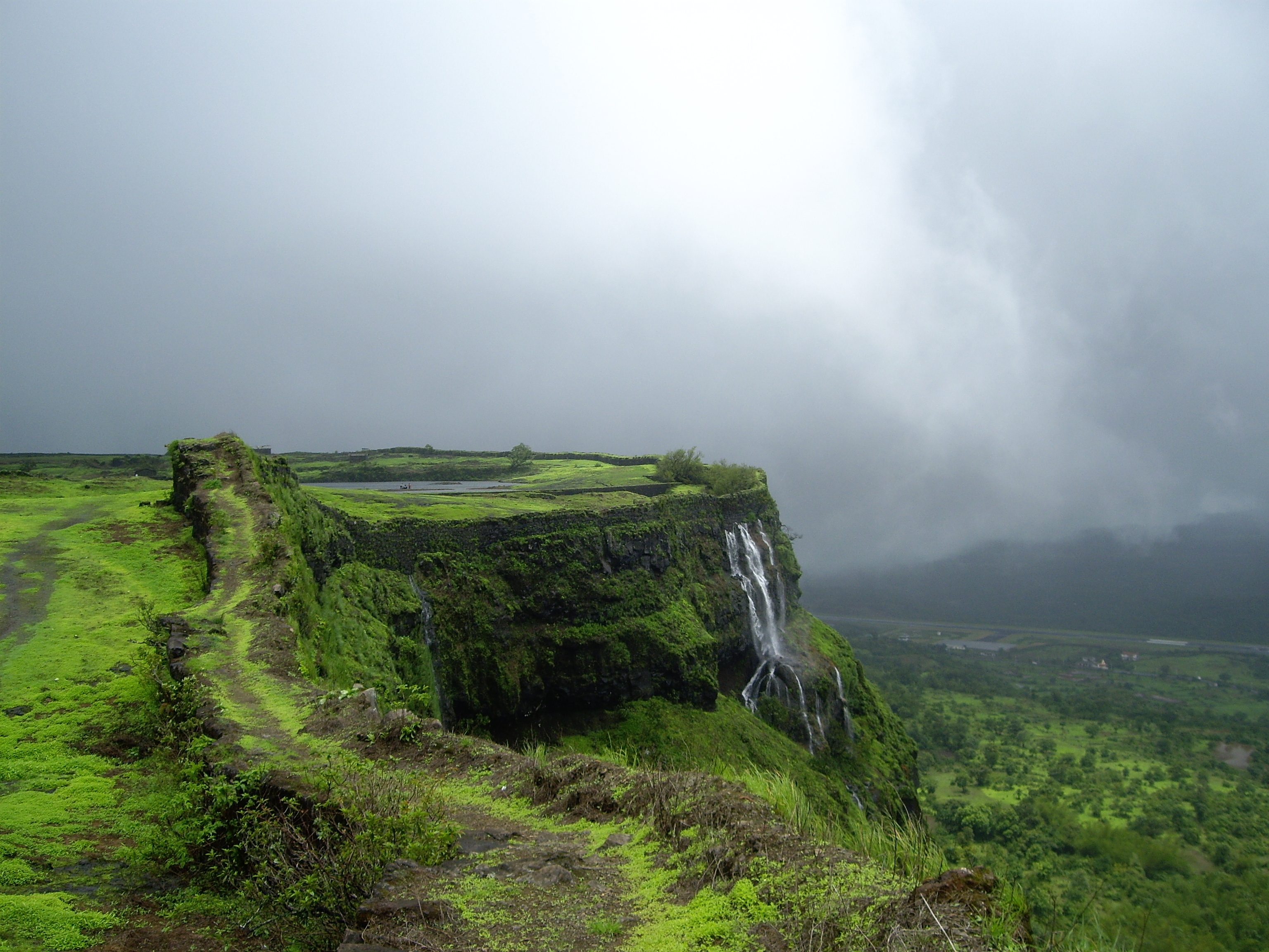 Place : Korigad, near Lonavla Thats the plateau of Korigad.